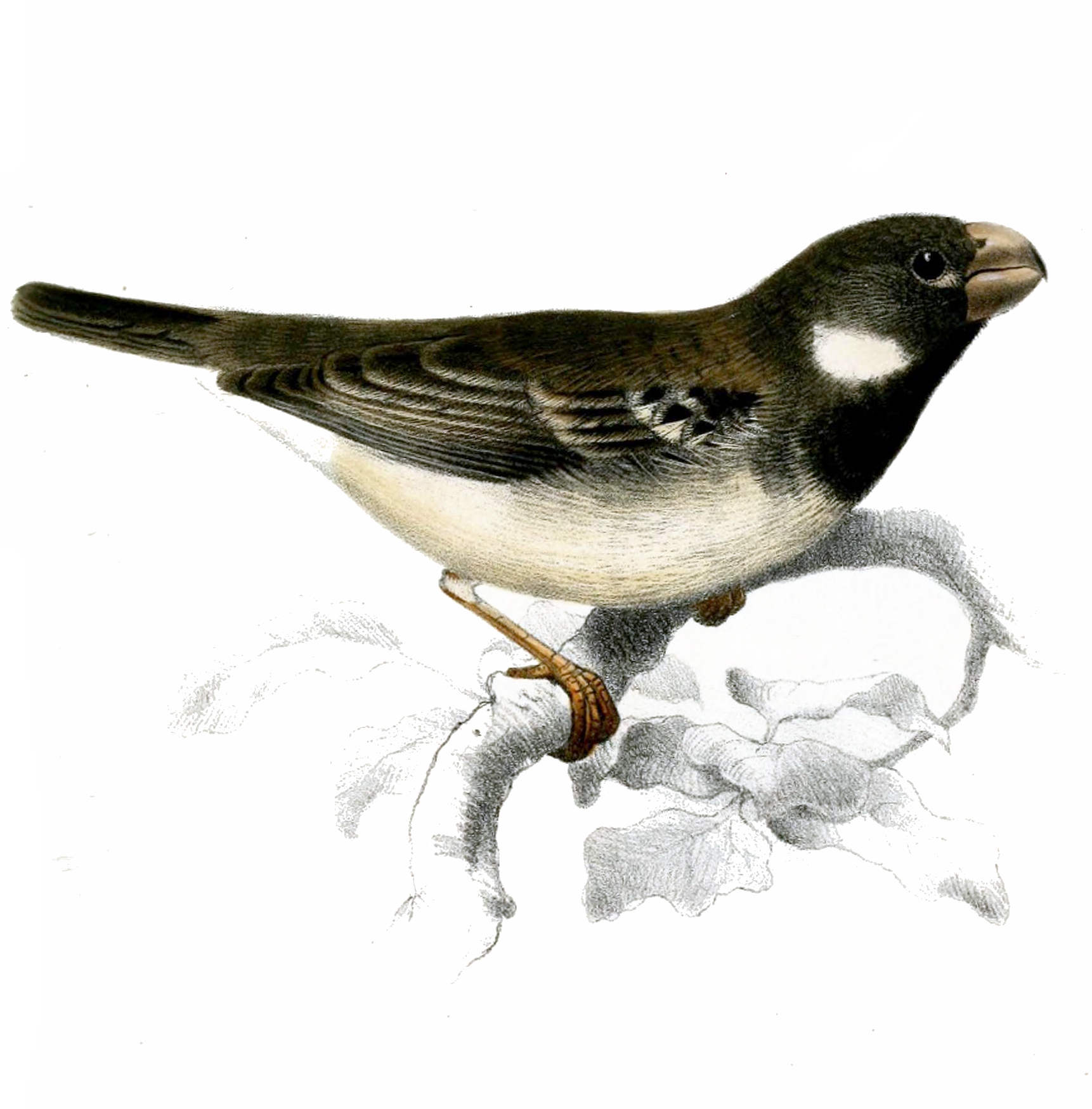 Neorhynchus maseus (sic) = Neorhynchus naseus = Sporophila peruviana. A male.